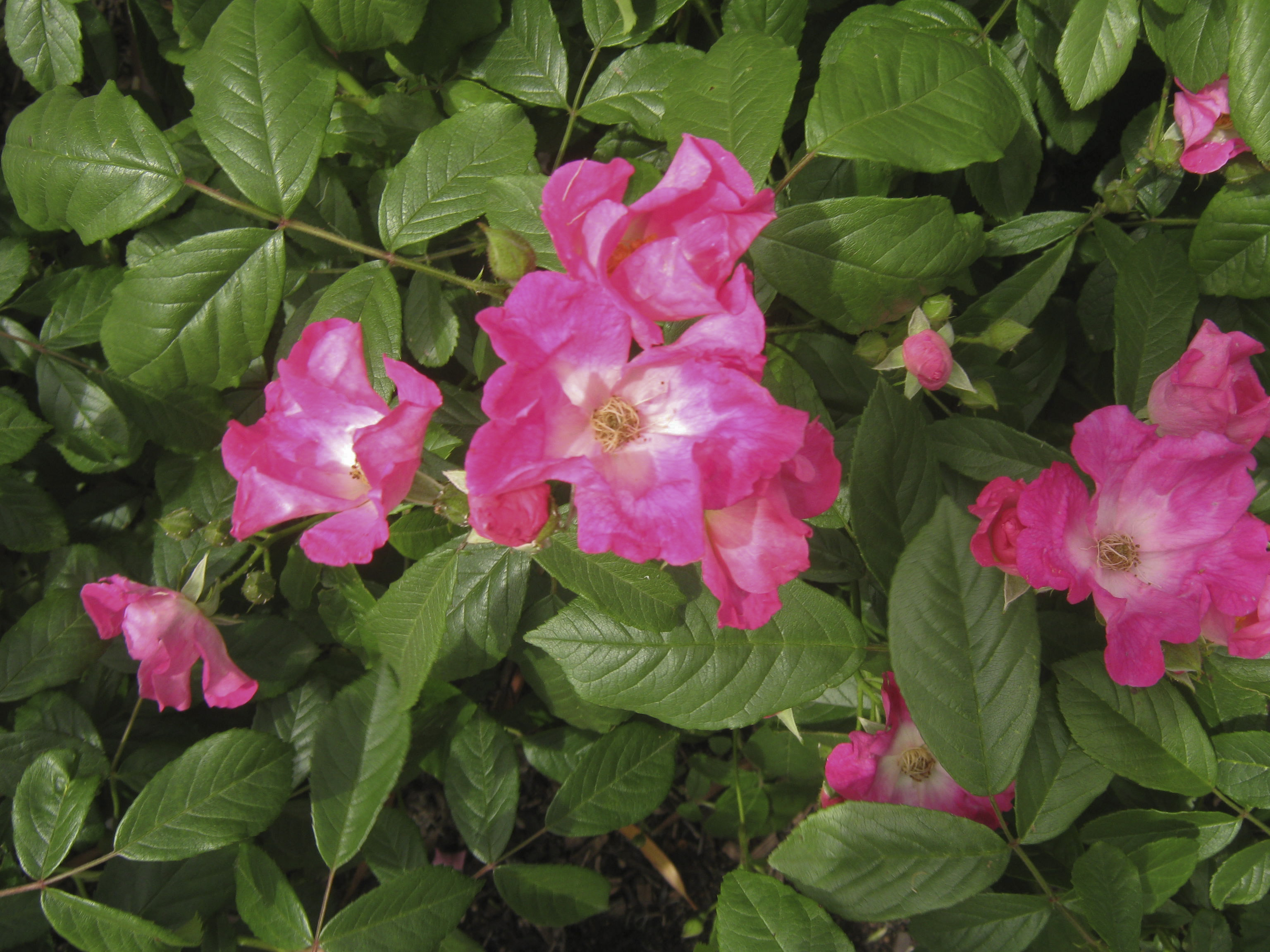 Rose 'Gay Vista' 1955 by Riethmuller; photographed in the Centenary Rose Garden, Morwell, Victoria